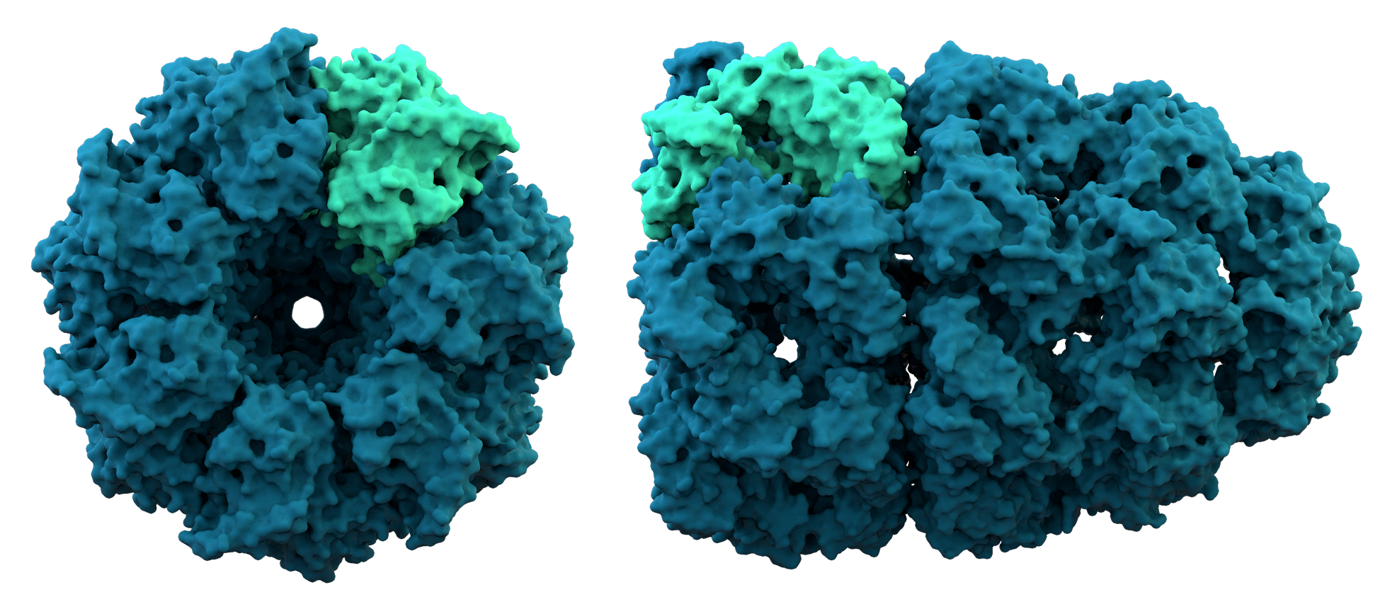 The crystal structure of the asymmetric GroEL-GroES-(ADP)7 chaperonin complex (based on PDB 1AON). Chaperonins assist protein folding.